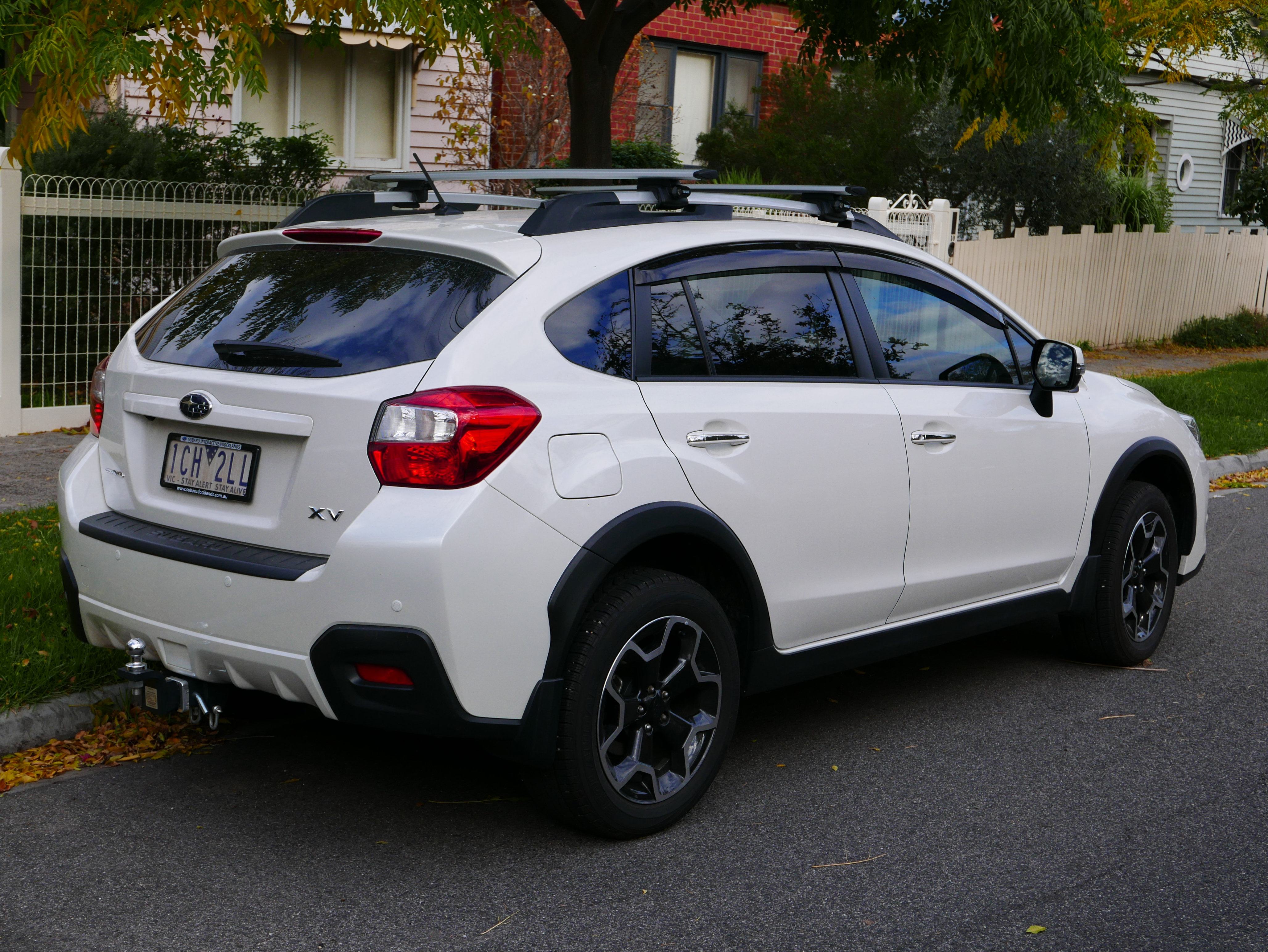 2014 Subaru XV (GP7 MY14) 2.0i-S hatchback. Photographed in Northcote, Victoria, Australia. Vehicle registration enquiry resultsJurisdictionVictoriaRegistration1CH2LLChassis codeJF1GP7KC5EG053394Engine code1331190Compliance date2014-06Year of manufacture2014